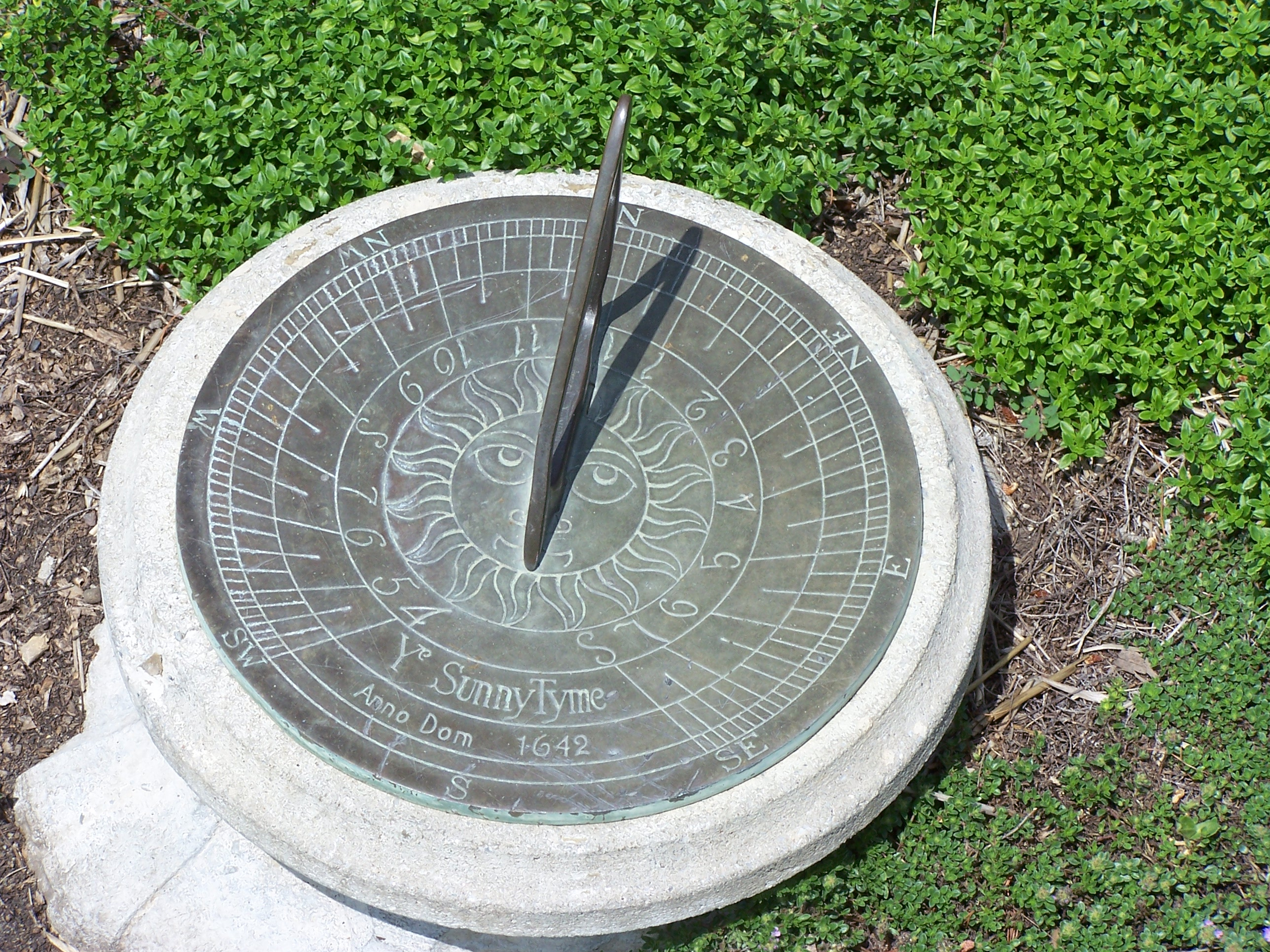 Sundial in thyme garden at Minnesota Landscape Arboretum. Photographed June 17, 2007 at 12:21 solar time (13:21 Daylight Savings Time).